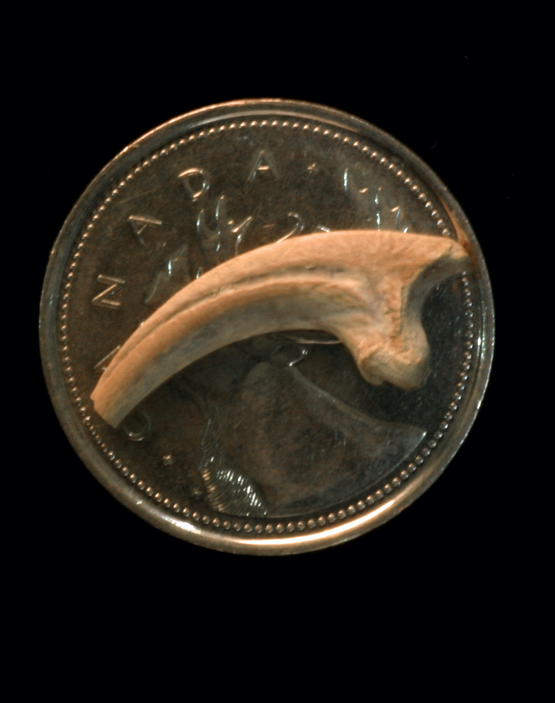 Sickle claw (pedal phalanx II-2) from Hesperonychus elizabethae (Dinosauria: Theropoda: Coelurosauria: Dromaeosauridae: Microraptorinae), from the Late Cretaceous (Campanian) Dinosaur Park Formation of Alberta, Canada, with a Canadian quarter for scale. Photograph by Nick Longrich